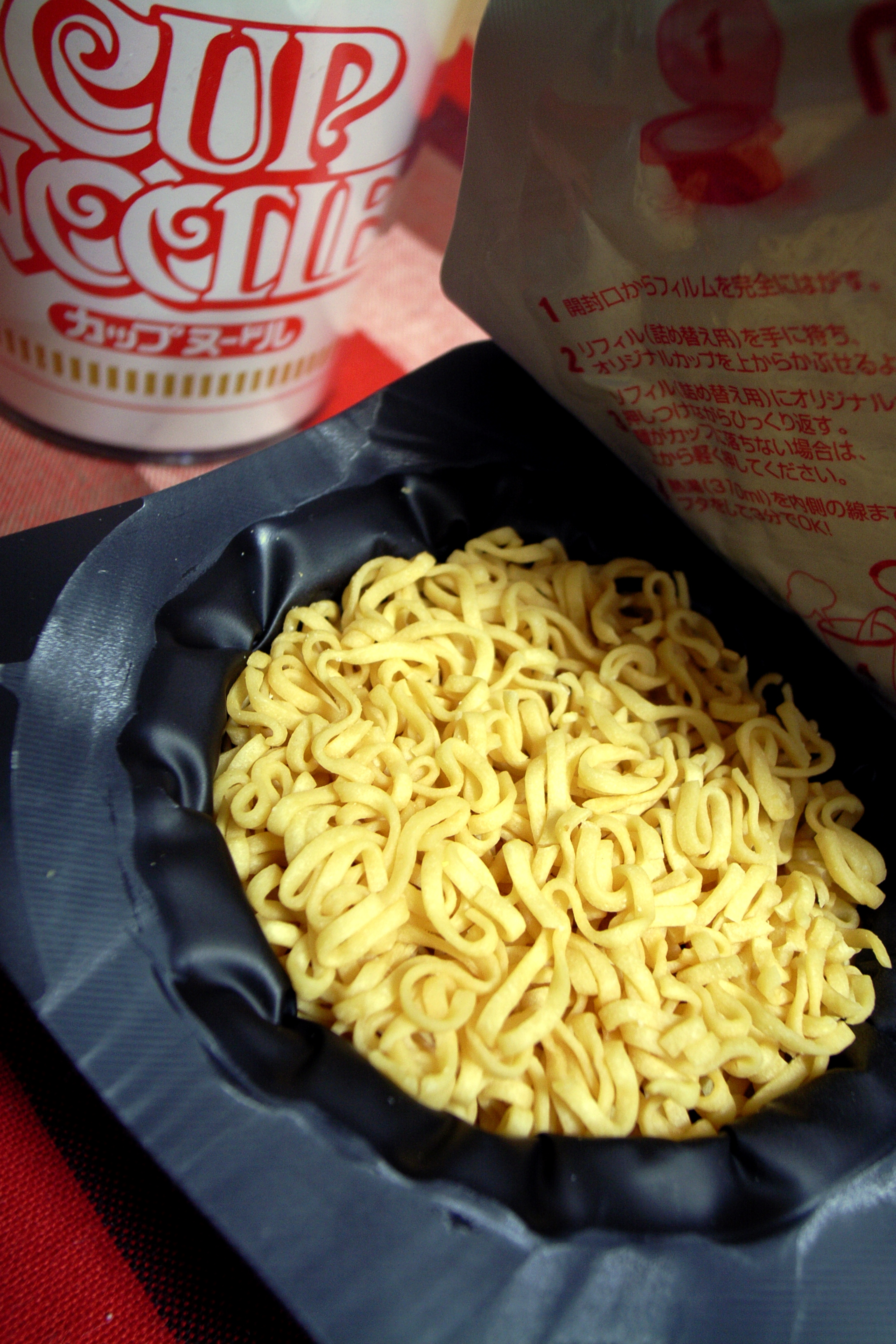 An uncovered cup of instant noodles